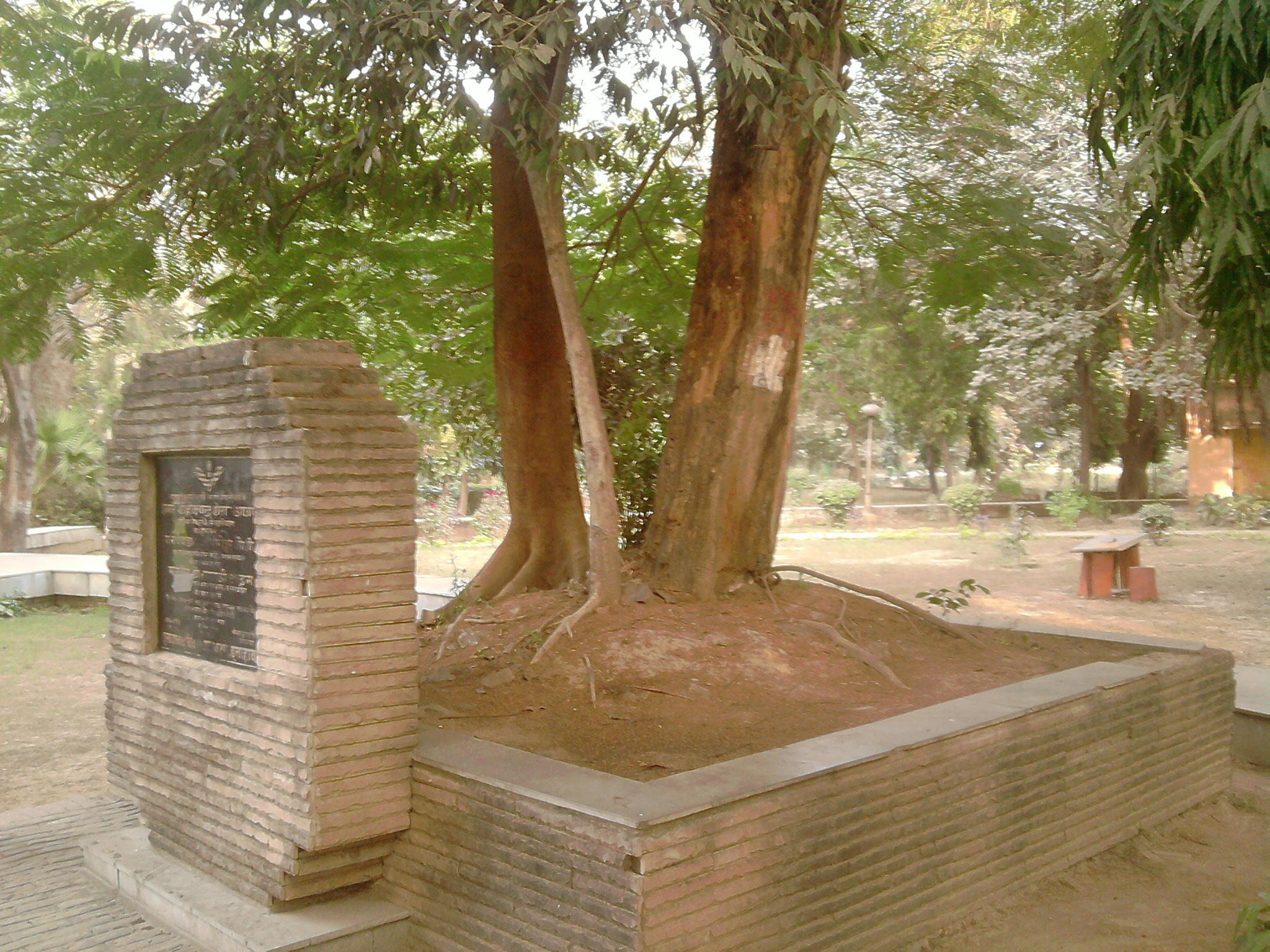 The tree at whose platform Azad achieved martyrdom in Chandrashekhar Azad Park. Azad was sitting on the side on which inscription has been installed.